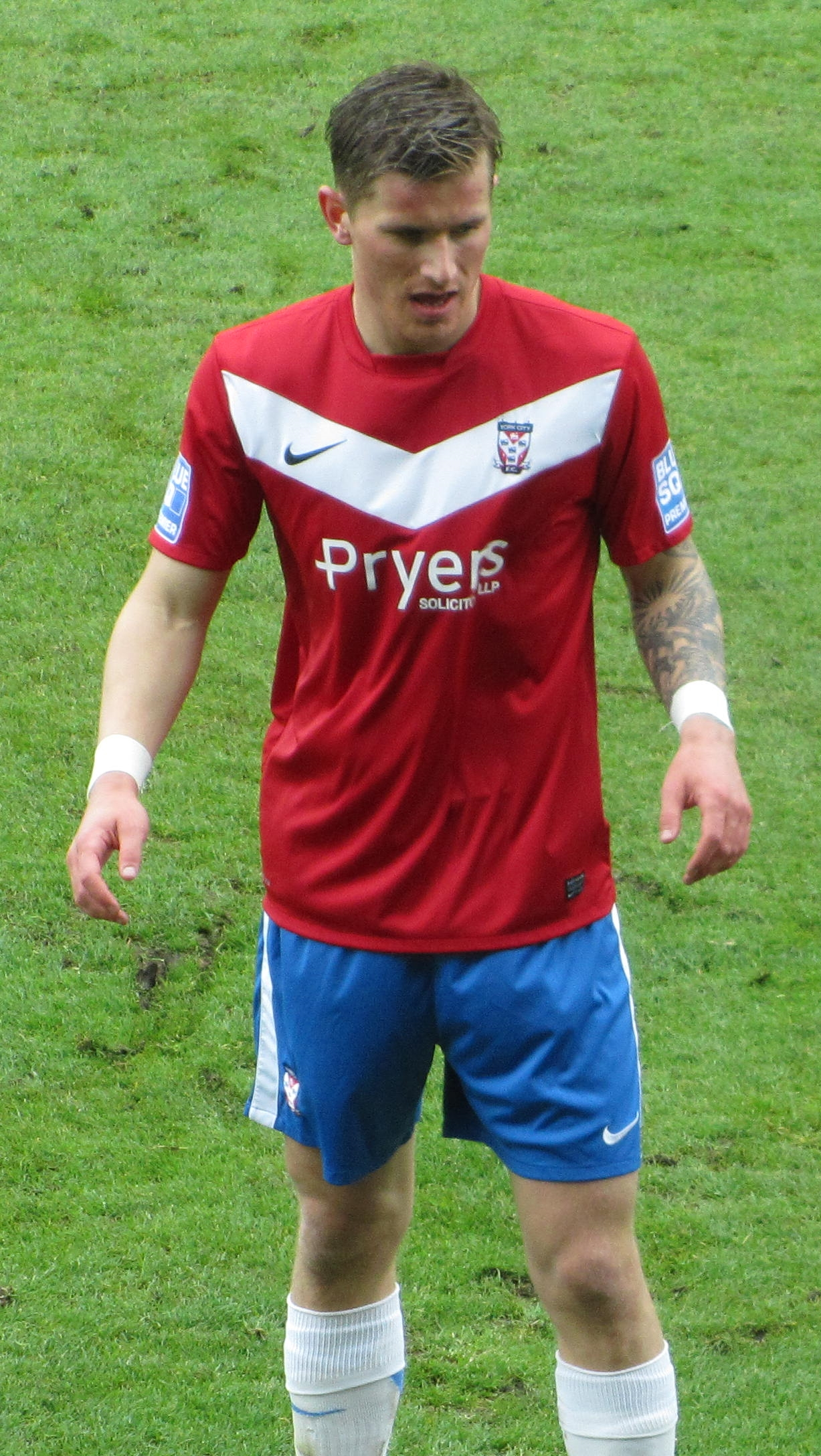 Erik Tønne playing for York City against Forest Green Rovers at Bootham Crescent, York on 28 April 2012